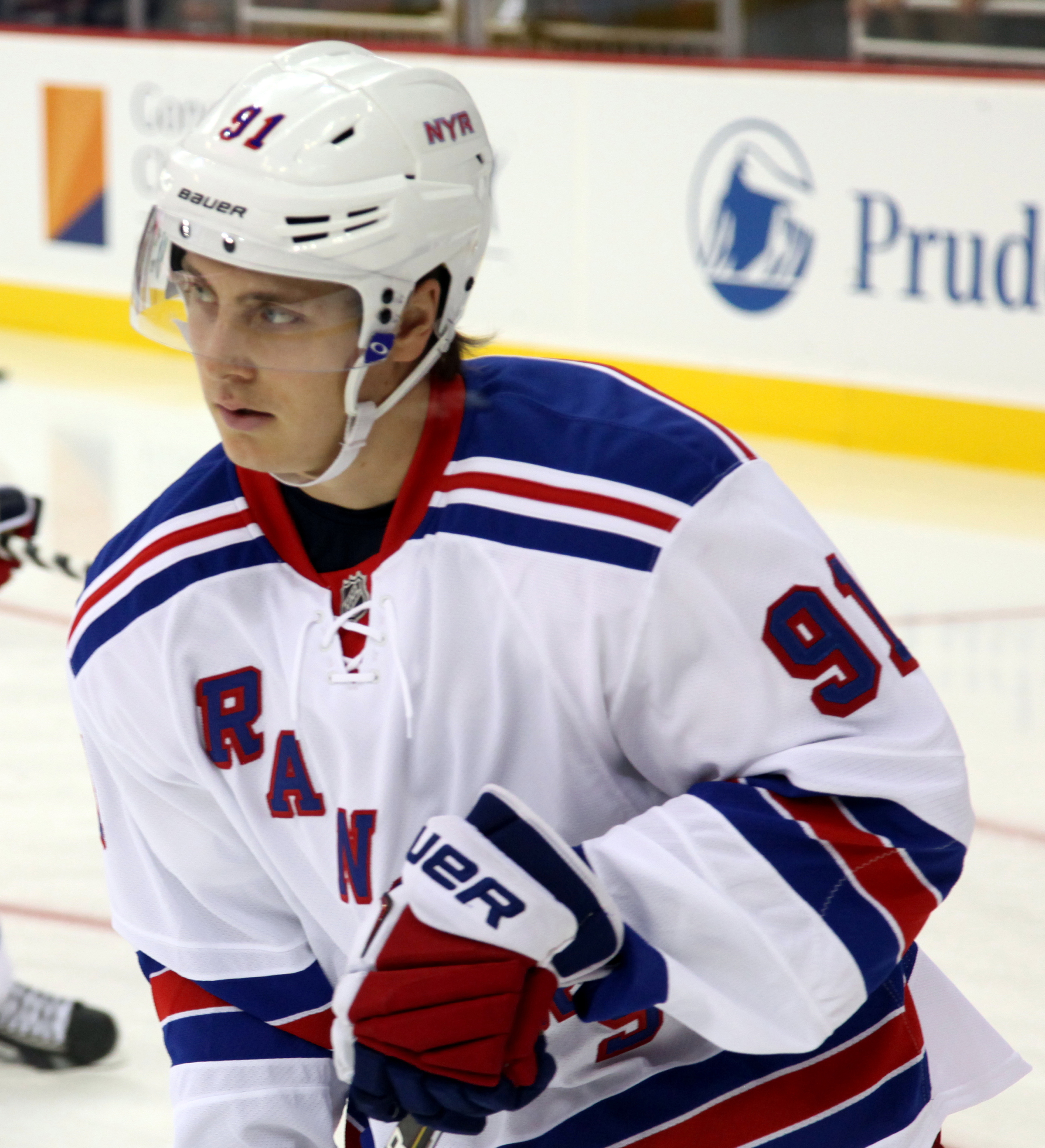 Fast in October 2014.